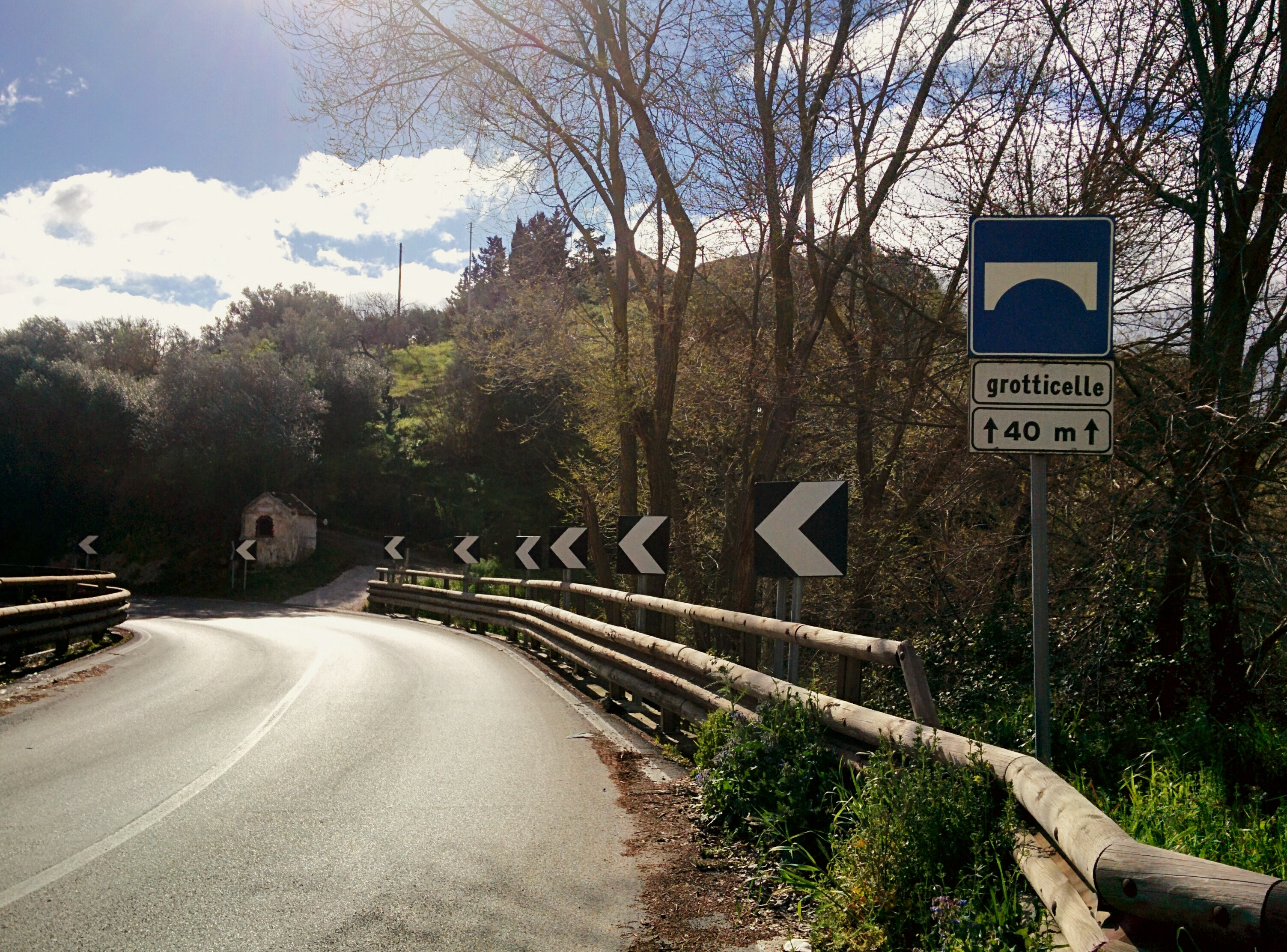 "Grotticelle" bridgeSeventh kilometre milestone in road strada provinciale 5 (province of Caltanissetta).